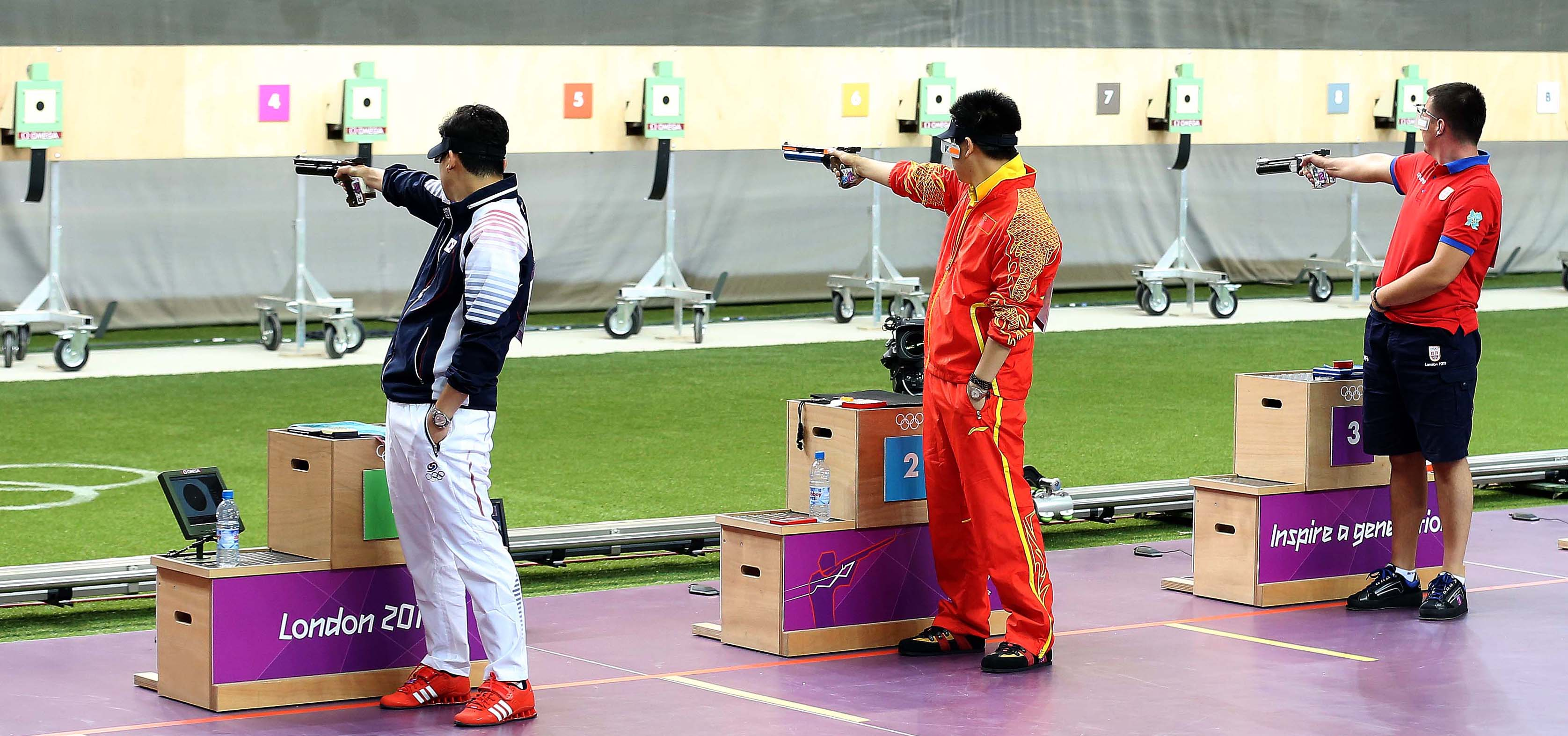 2012 London Olympic Games Korea JIN Jongoh won the gold medal Men's 10 meter air pistol final in the Olympic Games Shooting competition at the Royal Artillery Barracks. 2012.7.29. Photo by Korean Olympic Committee Ministry of Culture, Sports and Tourism Korean Culture and Information Service 2012 런던 올림픽 진종오 남자 10m 공기 권총 금메달 획득 사진제공 - 대한체육회 문화체육관광부 해외문화홍보원